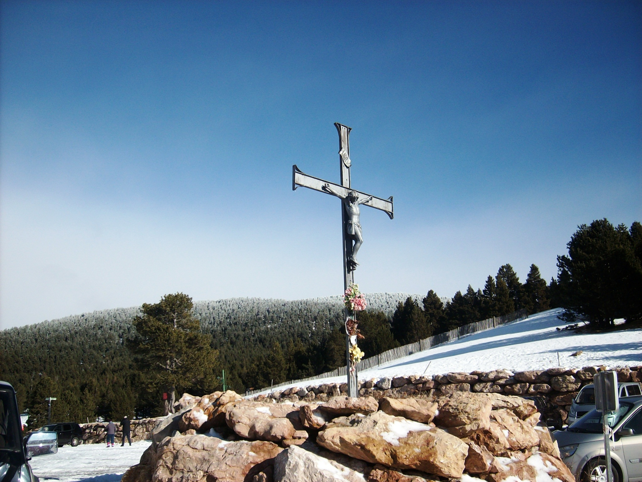 The Creu del Cabrer in Rasos de Peguera (Catalonia)